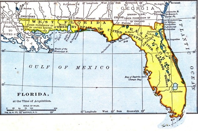 The British had divided Florida into the administrative units of East Florida and West Florida during their ownership (1763–1783).